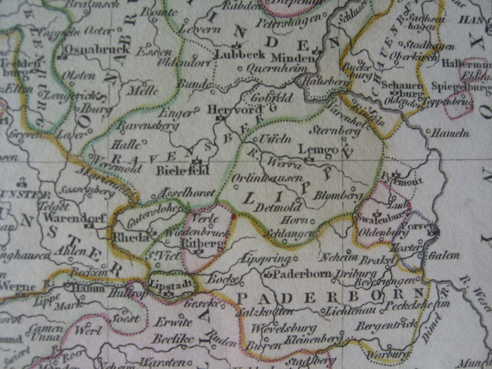 Cropped from a map I own published by R. Wilkinson in 1808. The enclave of Lippstadt ("Lipstadt") to the southwest was a condominium shared by Lippe and the counts of Cleves-Mark, and later the Hohenzollerns. Schwalenberg ("Swalenburg") was a condominium shared by Lippe, the bishopric of Paderborn and the abbey of Corvey, until these two ecclesiastical states were secularized in 1803. (G. Benecke, Society and Politics in Germany 1500-1750, 1974, p. 42)